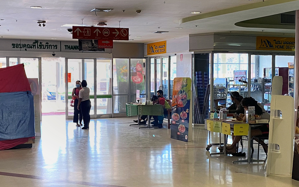 COVID-19 checking point at shopping mall entrance, temperature check and hand gel. BigC, Bo Phut, Koh Samui.